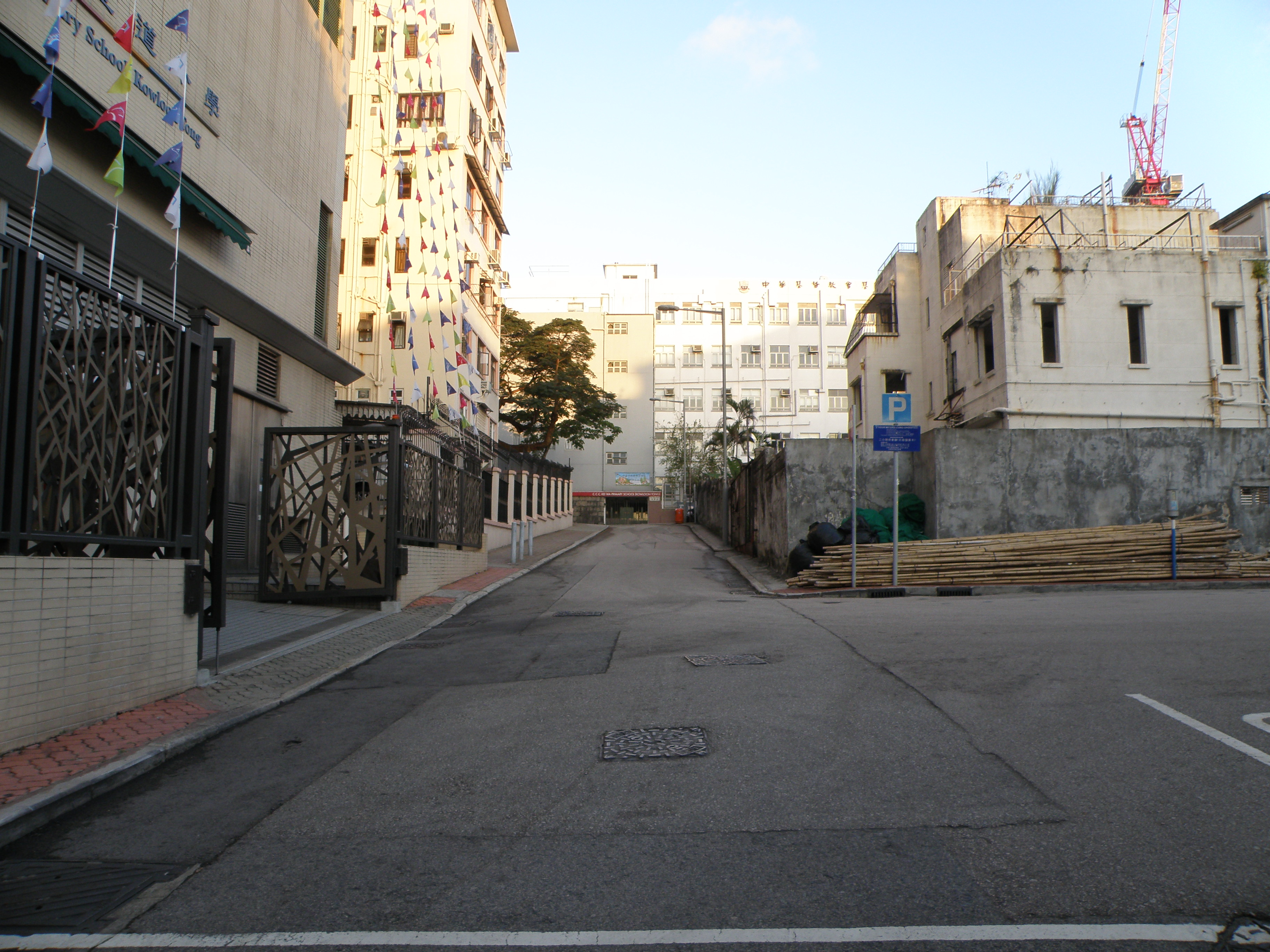 Derby Road in Kowloon Tong, Hong Kong.